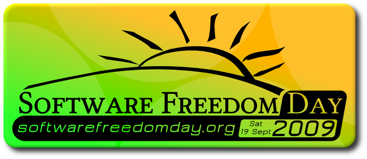 Software Freedom Day Logo